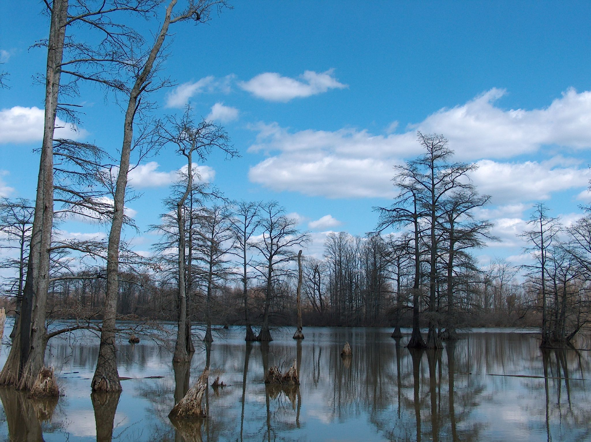 Bald cypress in Horseshoe Lake, Alexander County, IL